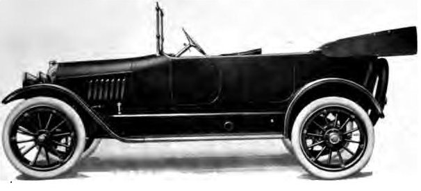 Image is of a 1916 Grant Automobile. It comes from the Automobile Year Book (1916) published by the Automobile department of McClure's magazine, The McClure Publications , inc. The scanned book is part of the Internet Archive collection. The notes at this site describe the source as: Book digitized by Google from the library of the University of Michigan and uploaded to the Internet Archive by user tpb.